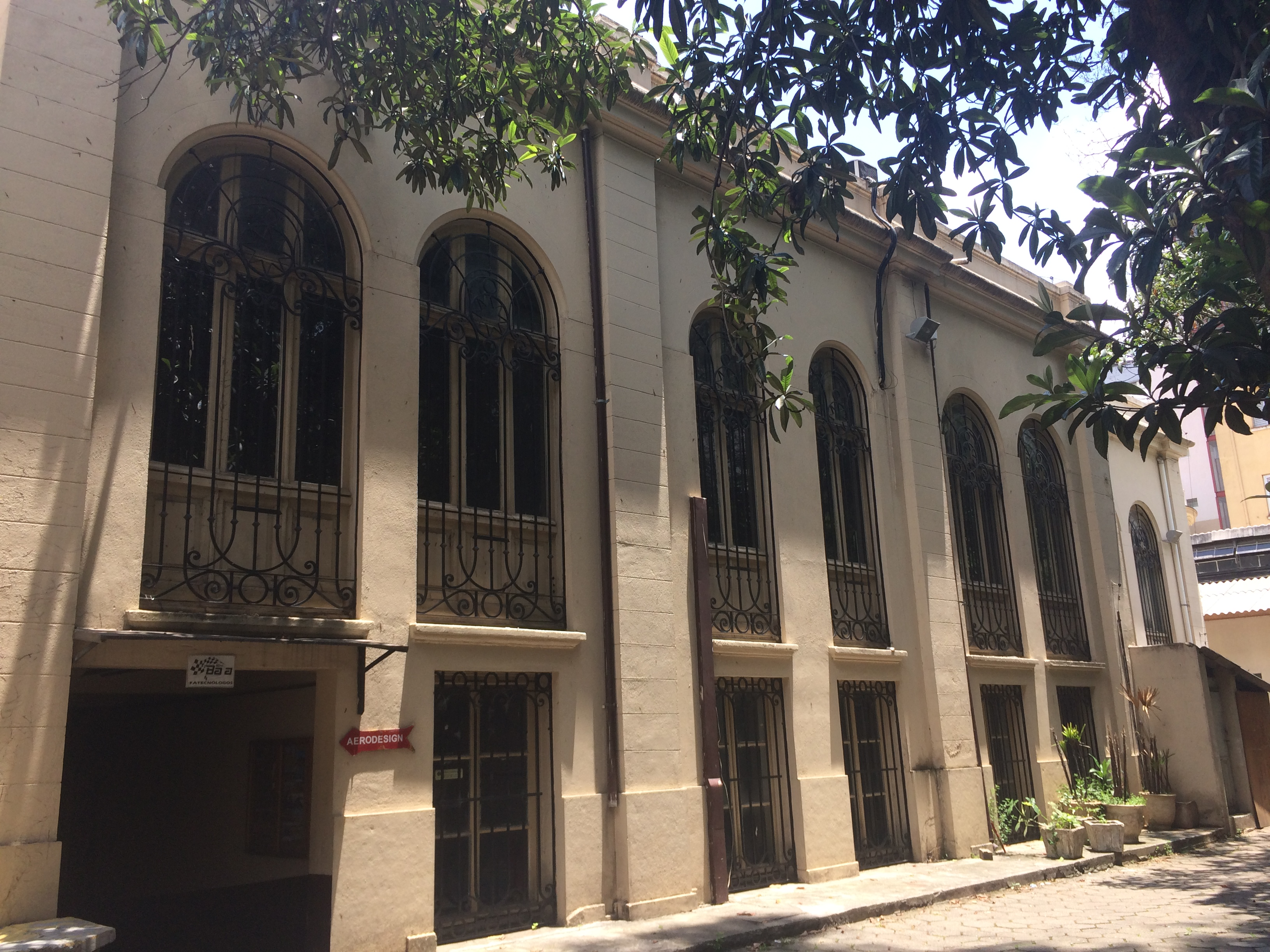 Parte de trás do Edifício Oscar Machado, da Antiga Escola Politécnica